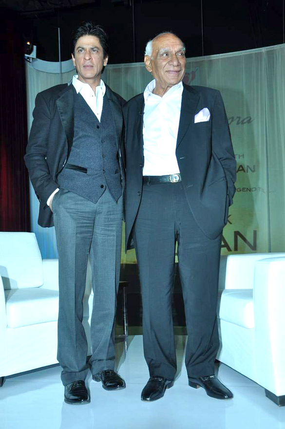 Yash Chopra and Shahrukh Khan in the birthday party of Yash Chopra